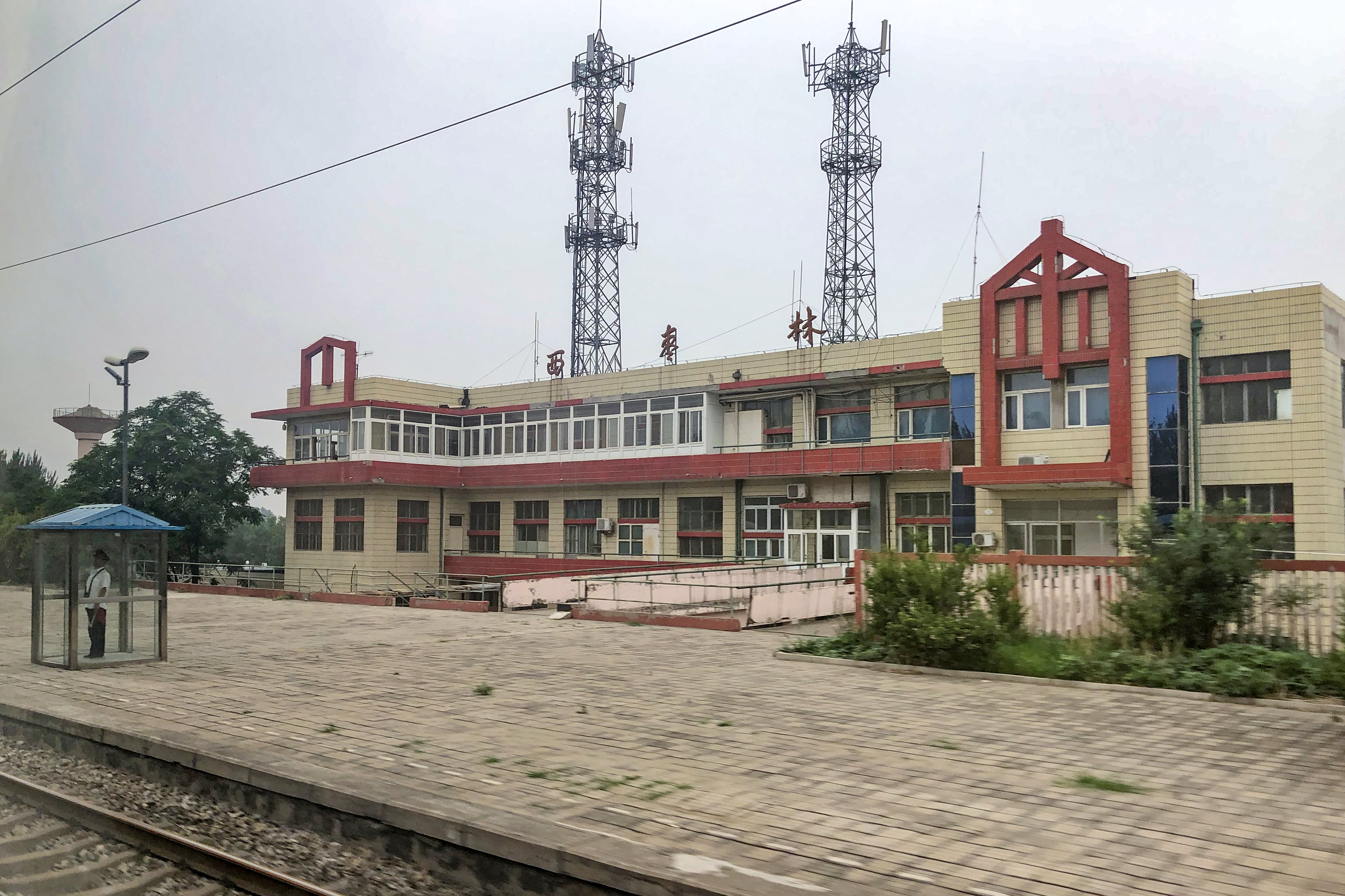 Z66 delayed?